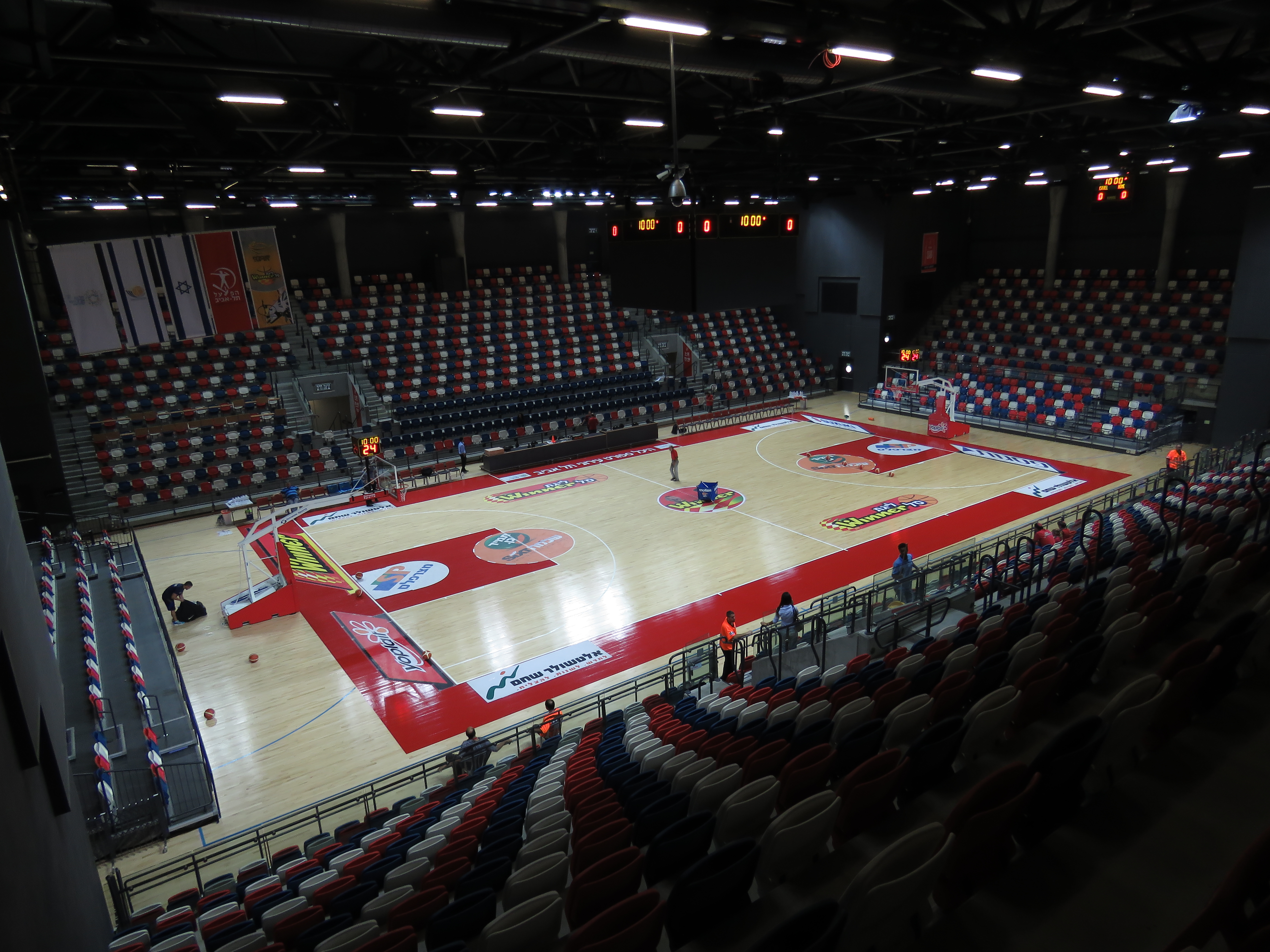 Drive In Arena